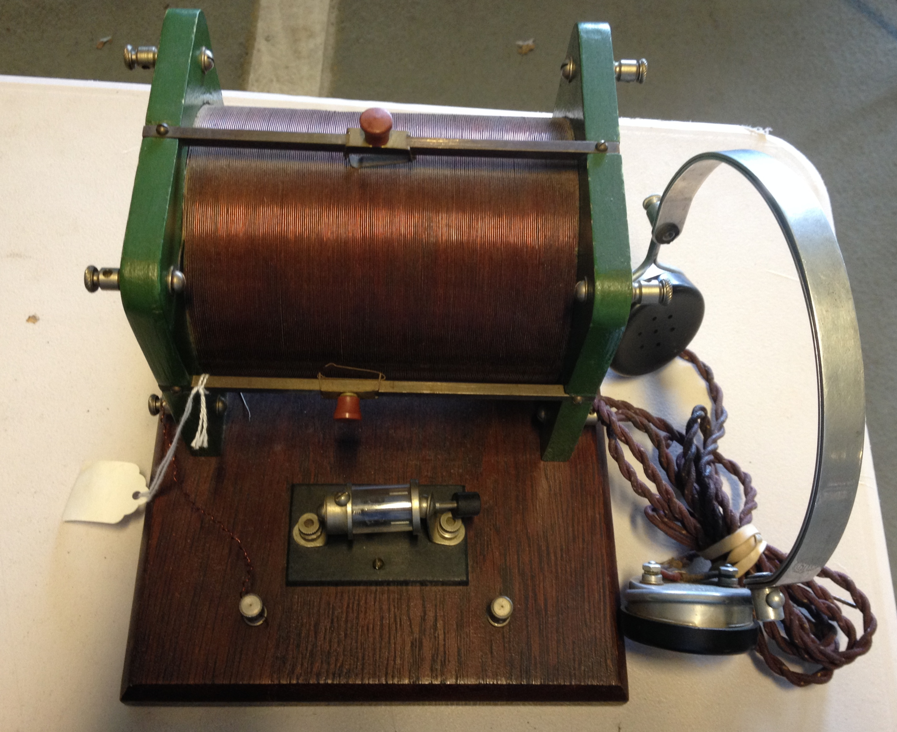 Crystal radio receiver with headphones. Offered for sale at the MIT Flea Market.